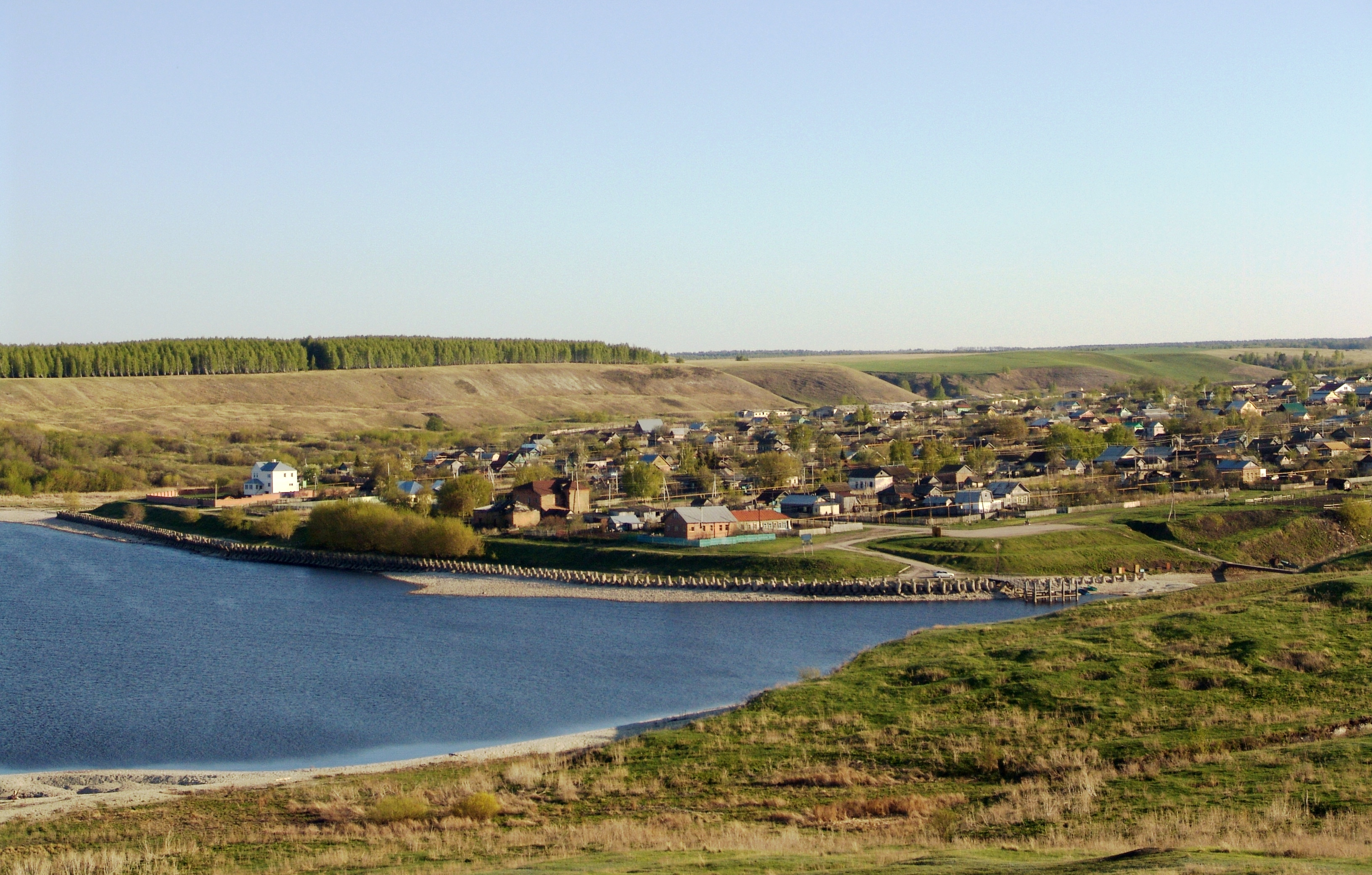 Novodevich'e